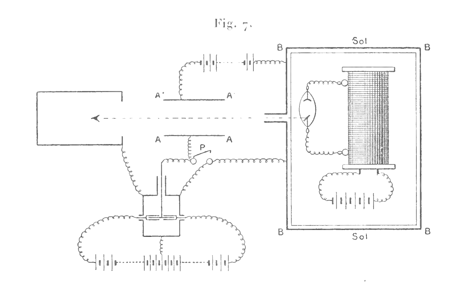 Figure 7 of Jean Perrin's PhD Thesis. B, shielded box containing the Ruhmkorff coil and the X-ray tube. A'A' and AA are plates of a condensor. In the lowest part, a quadrant electrometer. On the left hand side, a cup linked to earth (sol).